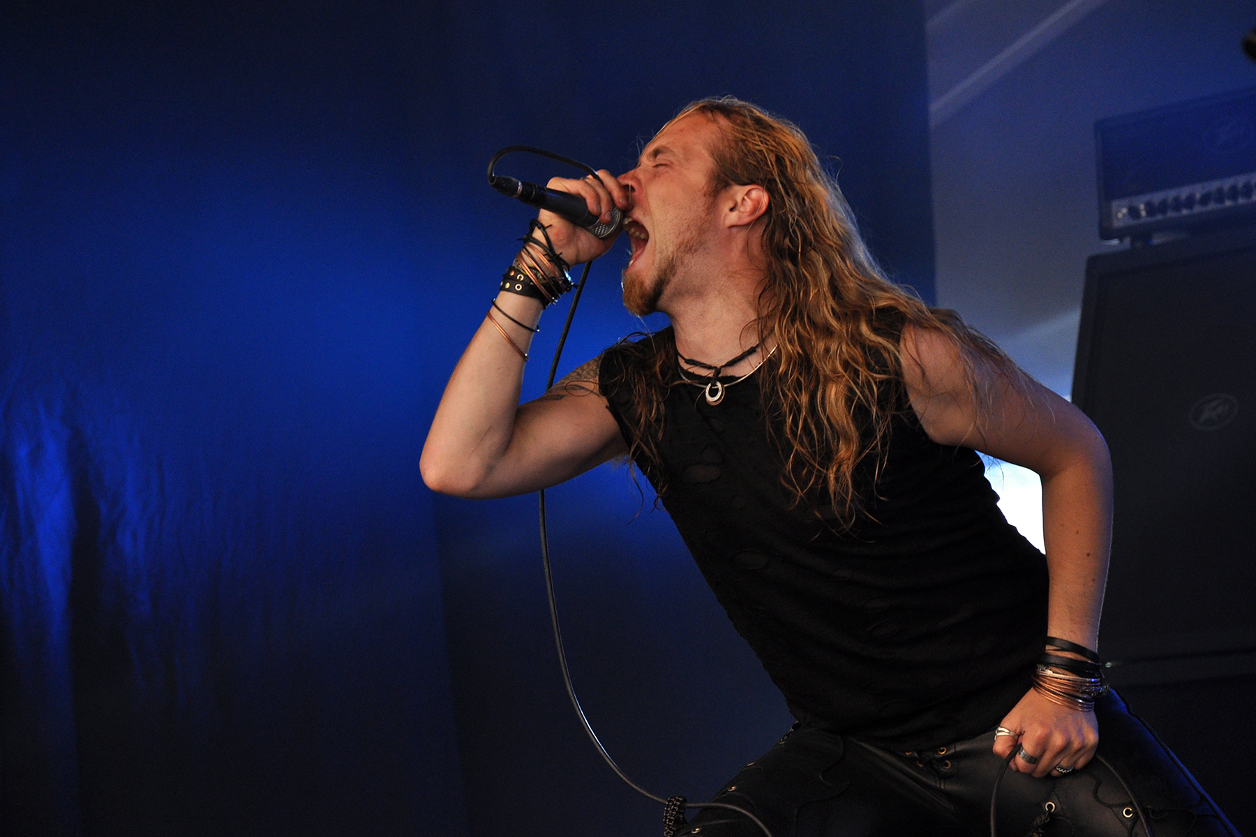 Thebon, lead vocalist of Keep of Kalessin at the Metal Mean Festival, le 20th of August 2011, in Méan (Belgium).